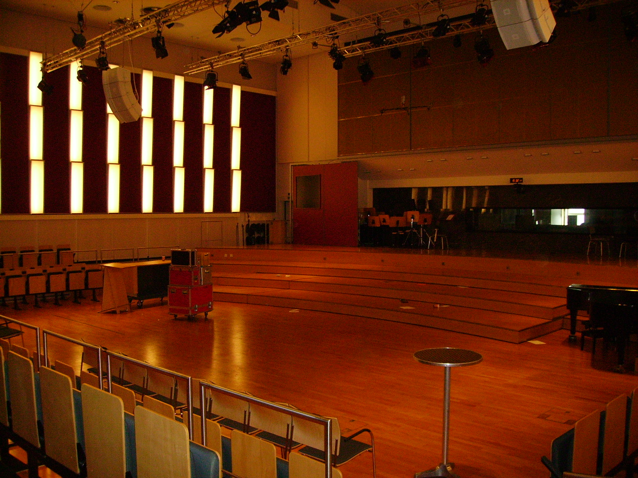 Former Jewish temple Oberstraße 120, Havestehude, main room; now Rolf-Liebermann-Studio of the Northern German Broadcasting Corporation (NDR)